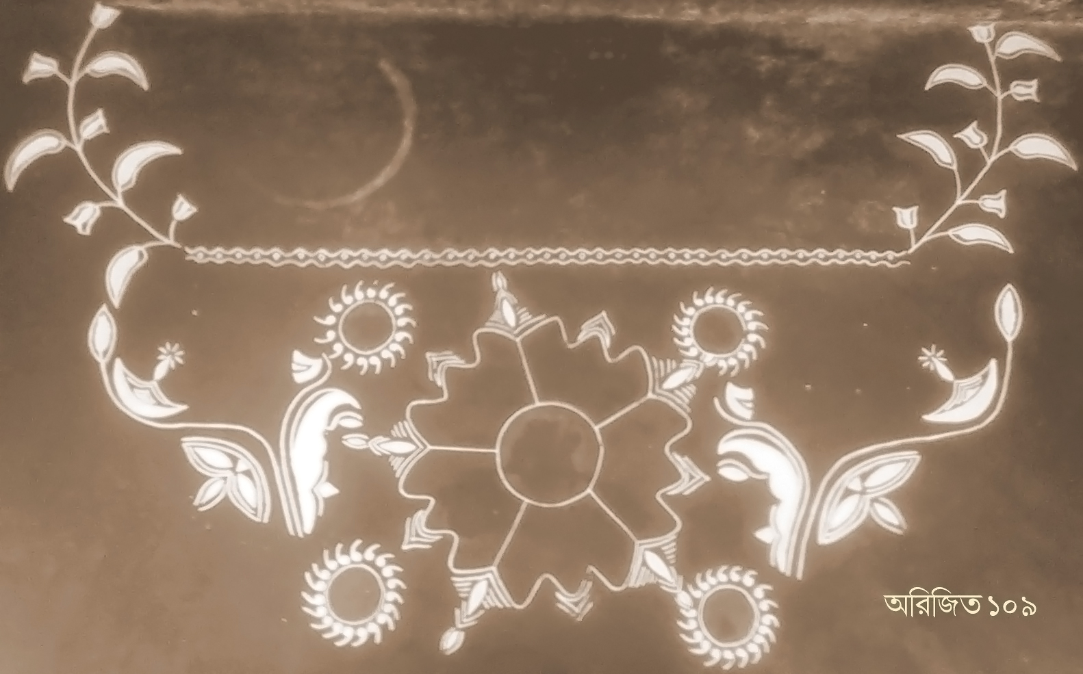 Usually there are four 'tirkathi' and a 'debighat' in front of every God in Bengal. This alpana is drawn around Saraswati Goddess where four small round are for four 'tirkathi' and middle big circle is for the 'debighat'.